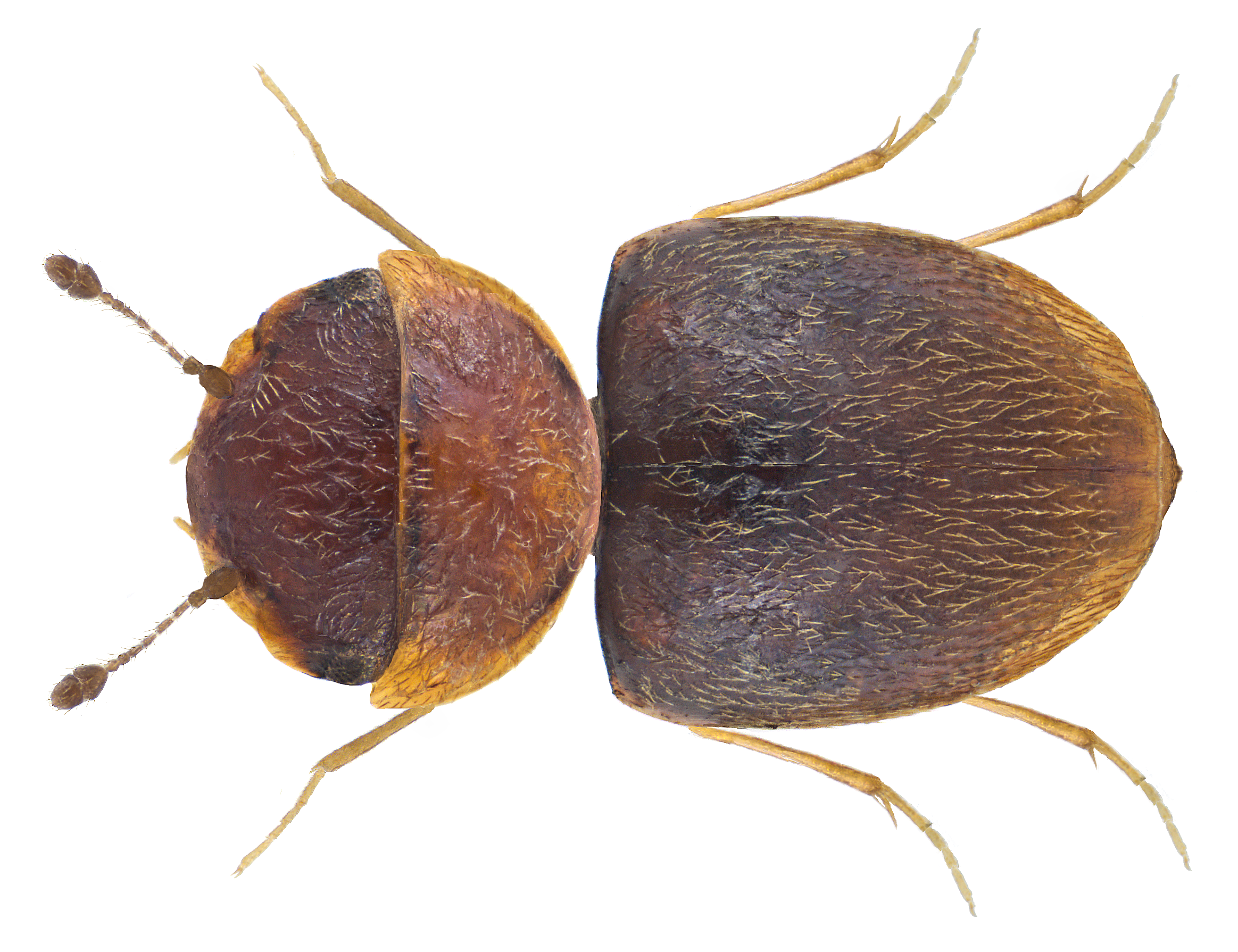 Family: Clambidae Size: 1,3 mm (1,1 to 1,6 mm) Origin: Europe without Northern Europe, North Africa and South Africa Ecology: under bark of deciduous trees Location: Germany, Bavaria, Upper Franconia, Kulmbach leg det. U.Schmidt, 21.VIII.1995 Photo: U.Schmidt, 2015